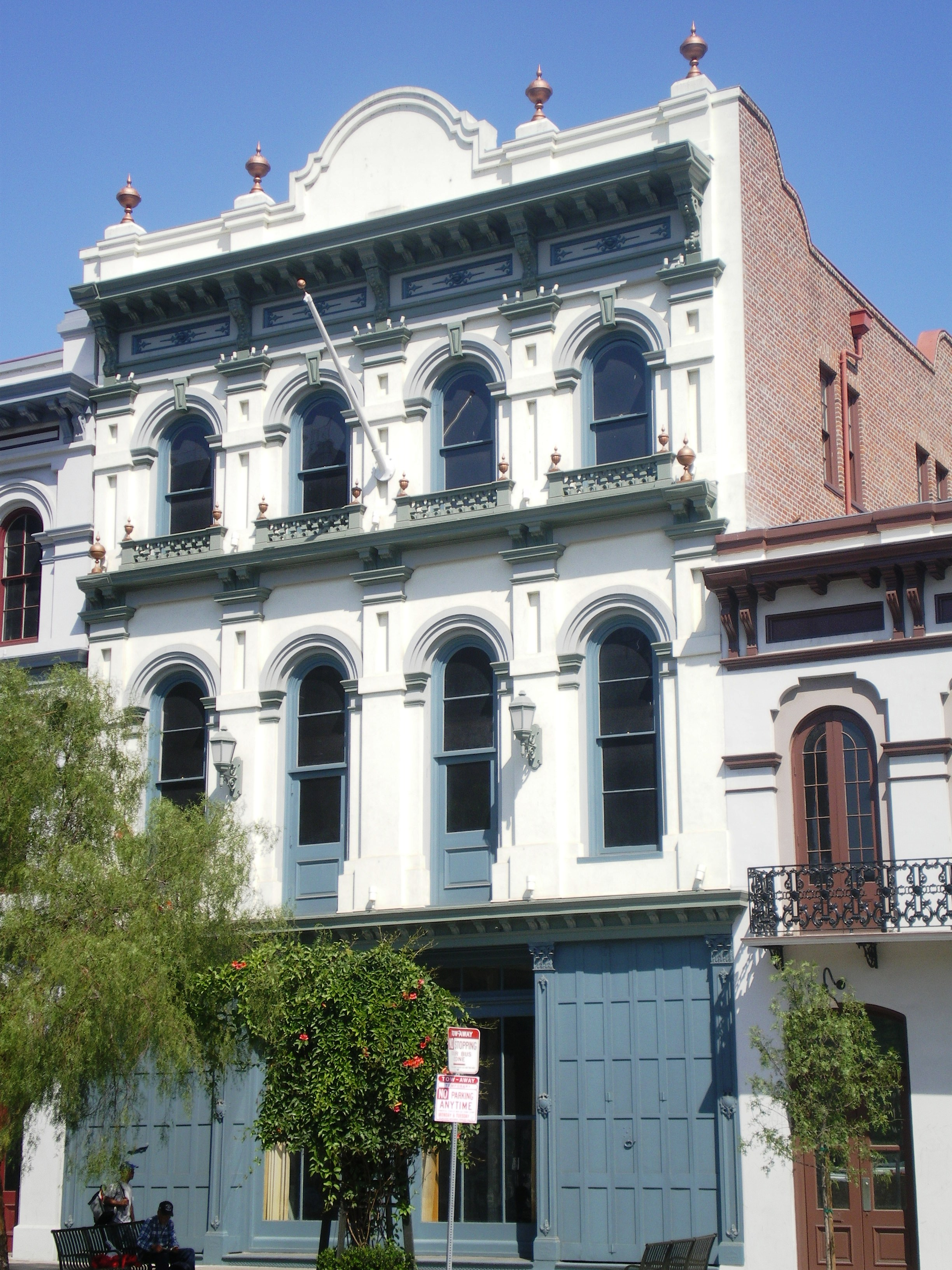 Merced Theater — in the Los Angeles Plaza Historic District. Built of brick in the Victorian Italianate style, in 1870.